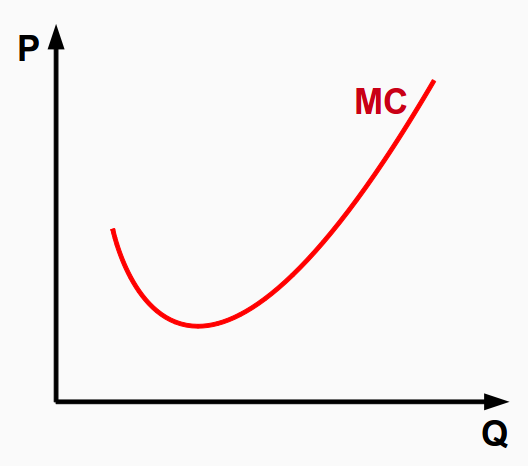 marginal cost curve